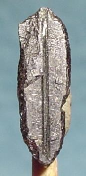 Meneghinite Locality: Bottino Mine, Stazzema, Apuan Alps, Lucca Province, Tuscany, Italy (Locality at ) Size: 1.1 x 0.4 x 0.2 cm. A remarkably well-formed, euhedral, twinned crystal for this rare sulfosalt species from the Type Locality. Small, but very fine and a great reference specimen. The twinning plane groove is a real attention getter. The Bottino Mine is ANCIENT, having been worked by the Etruscans!